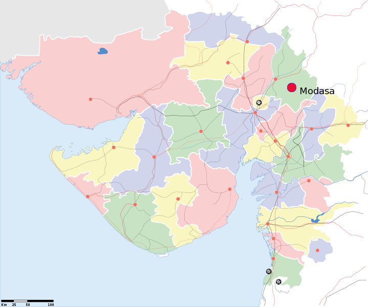 Map of Modasa